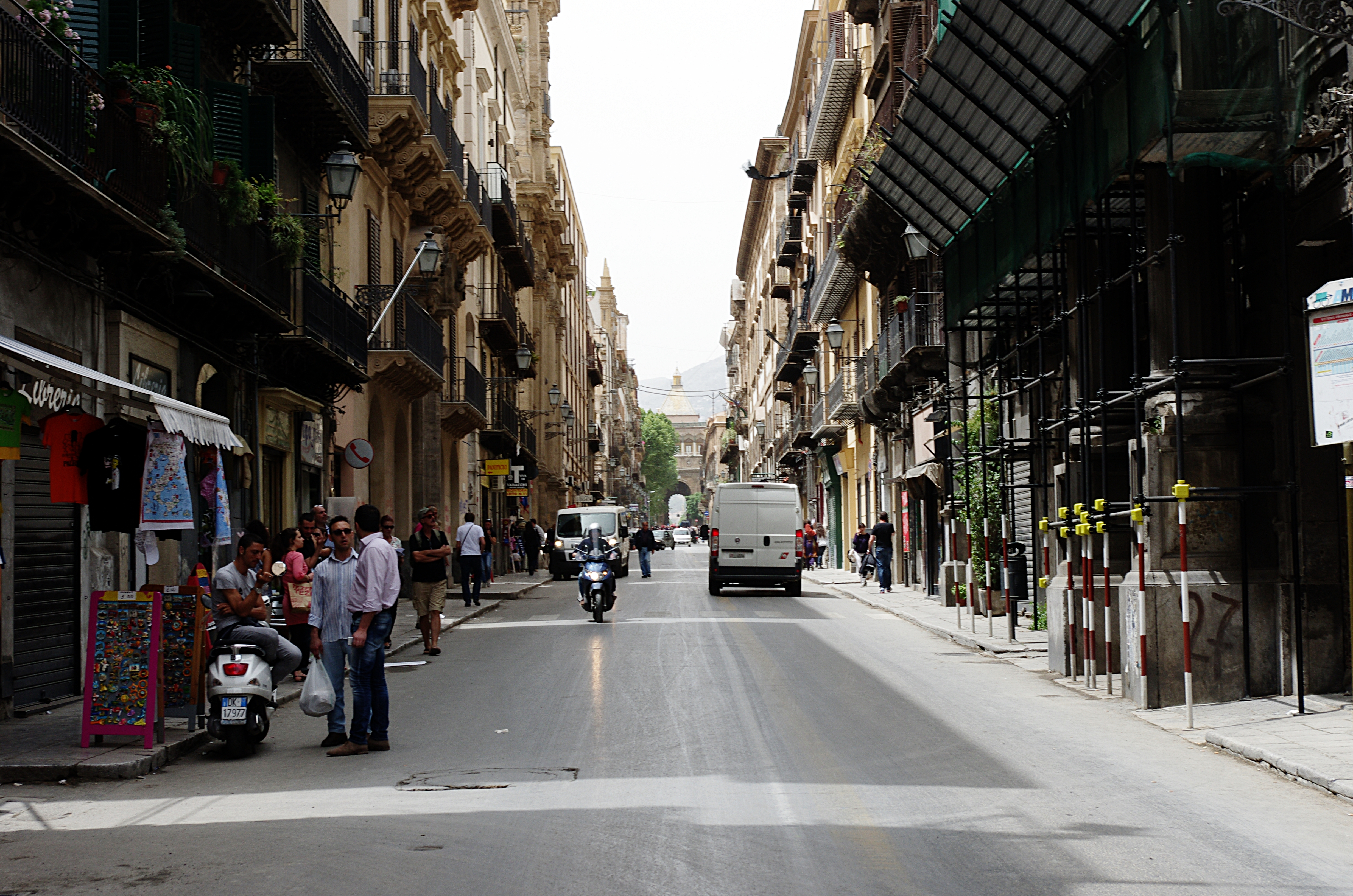 The Via Vittorio Emanuele in Palermo.